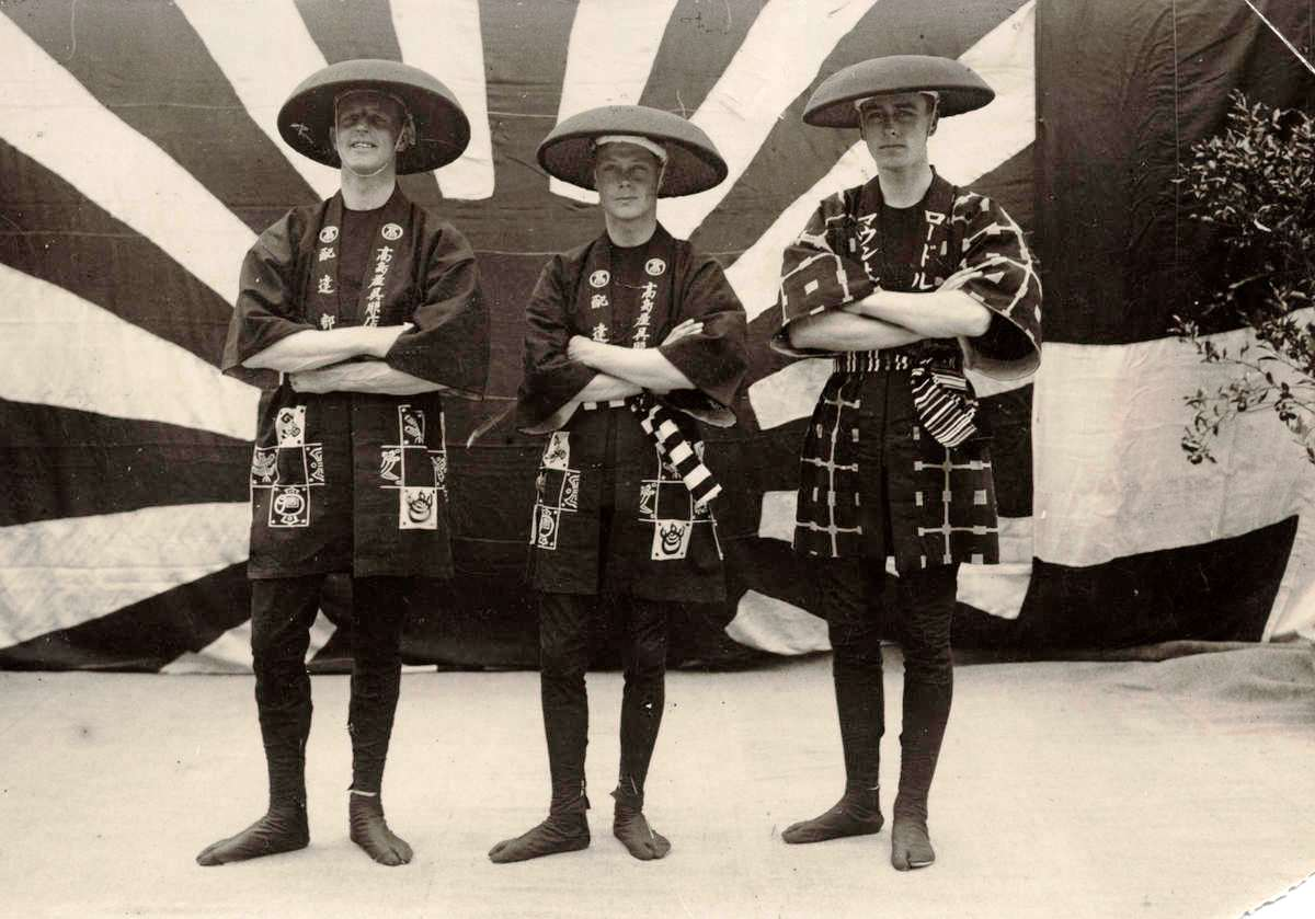 Edward, Prince of Wales, bought the coat (Happi) himself in Kyoto during his visit to Japan in 1922 and disguised himself as a ricksha man at a party.